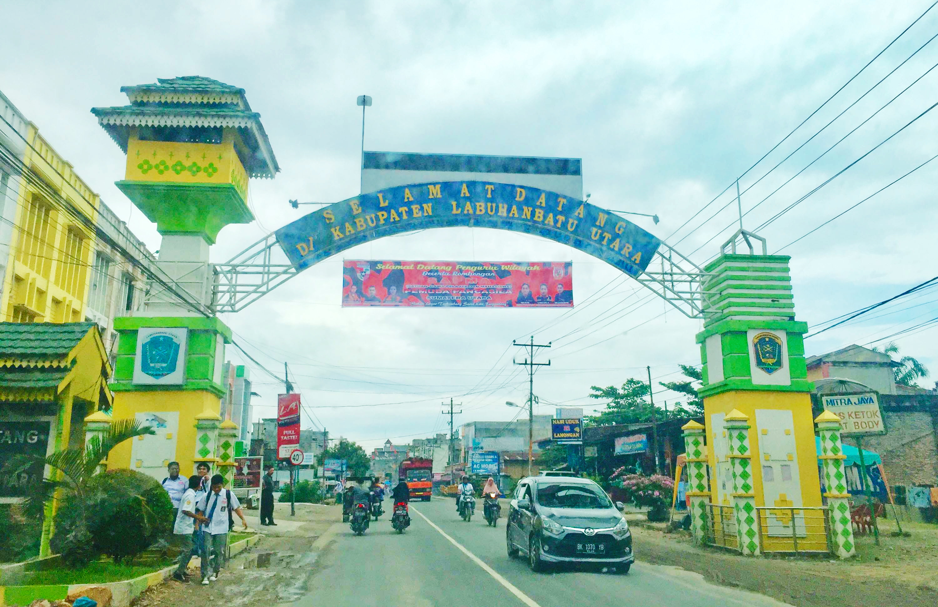 Welcome Gate to Labuhanbatu Utara Regency